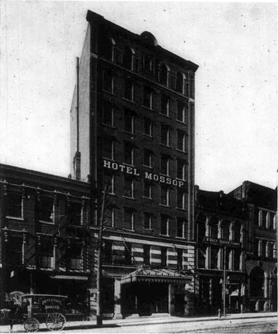 The Hotel Mossop (now the Hotel Victoria), in 1909.